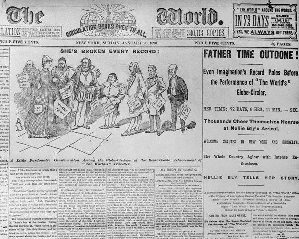 recording her record